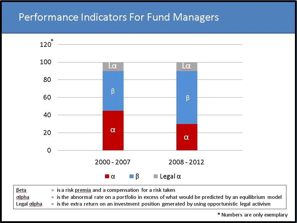 Graph showing performance indicators for fund managers with description